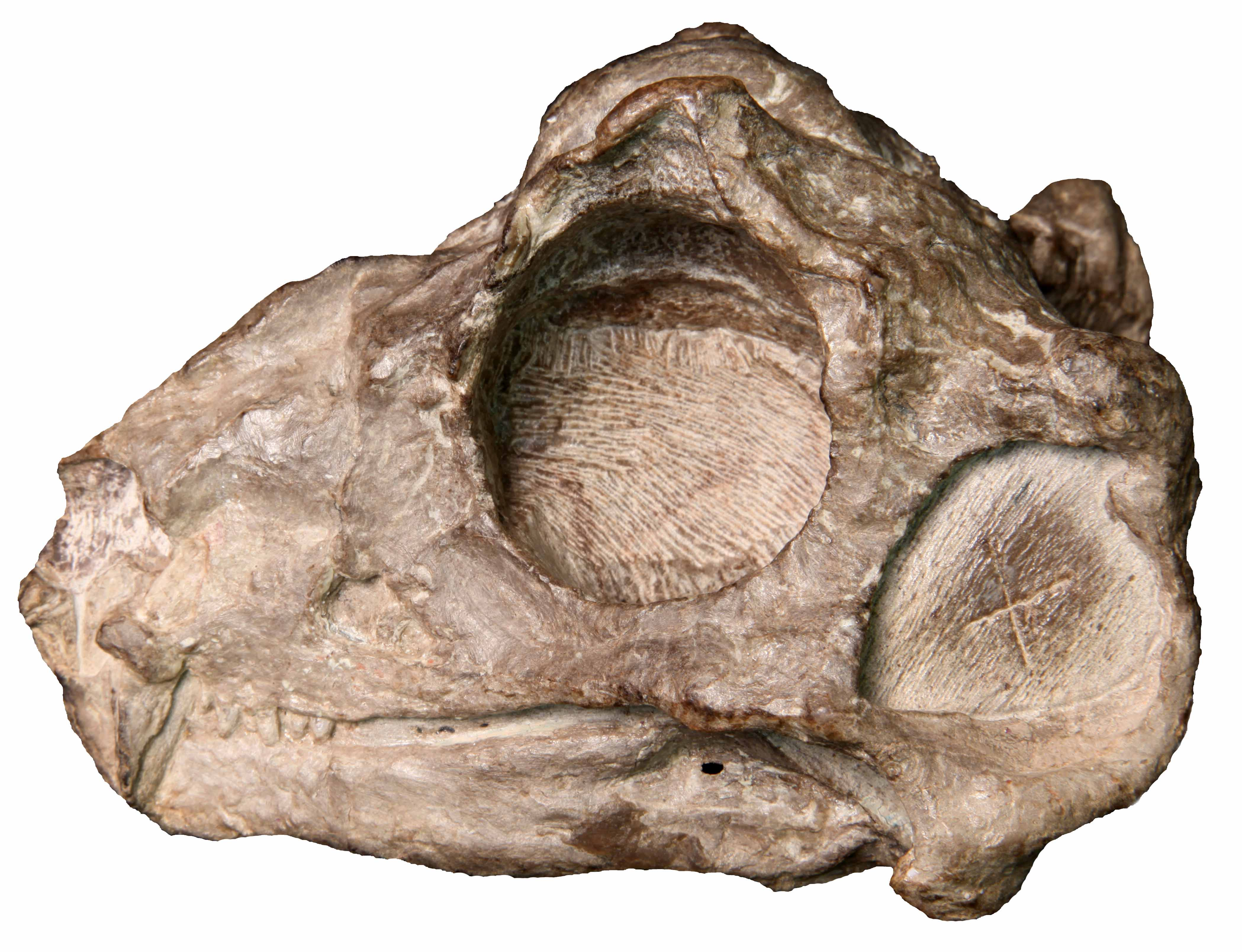 MAL 290 the Holotype of Lende chiweta